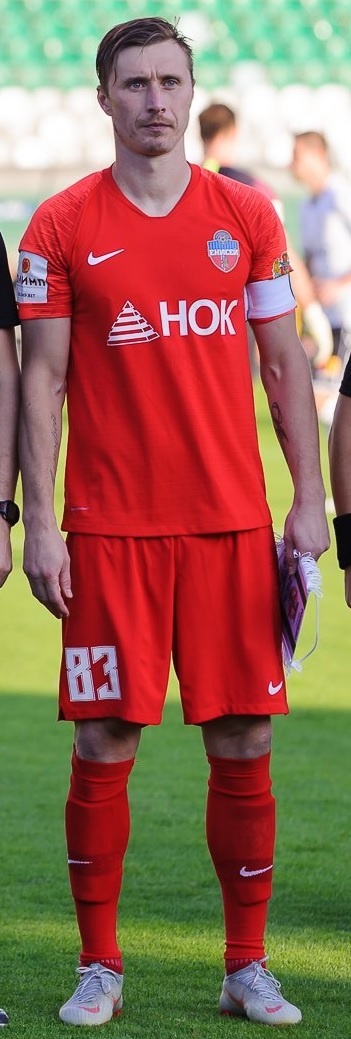 Aleksandr Kharitonov with FC Yenisey Krasnoyarsk before the game against FC Torpedo Moscow.